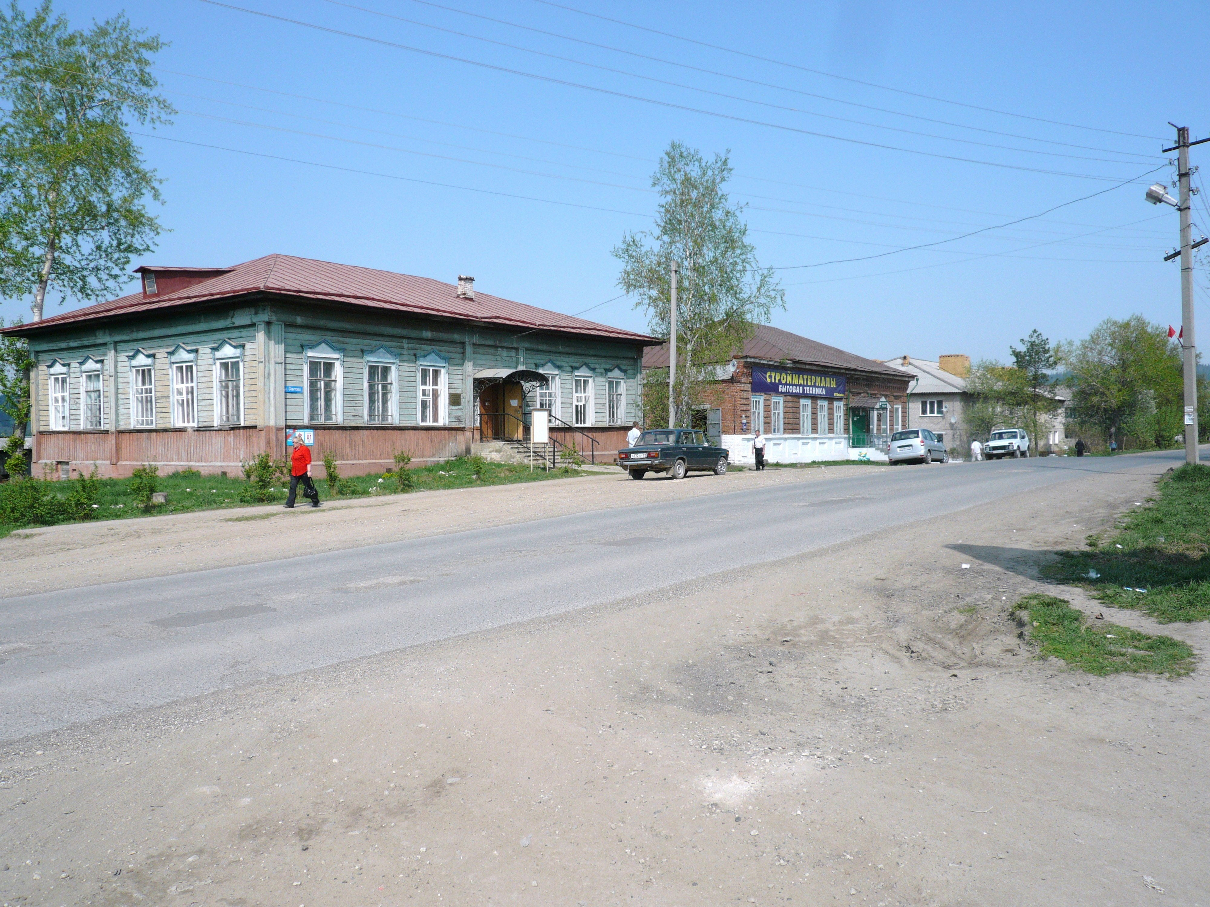 Ust-Kishert, the center.Усть-Кишеть, центр